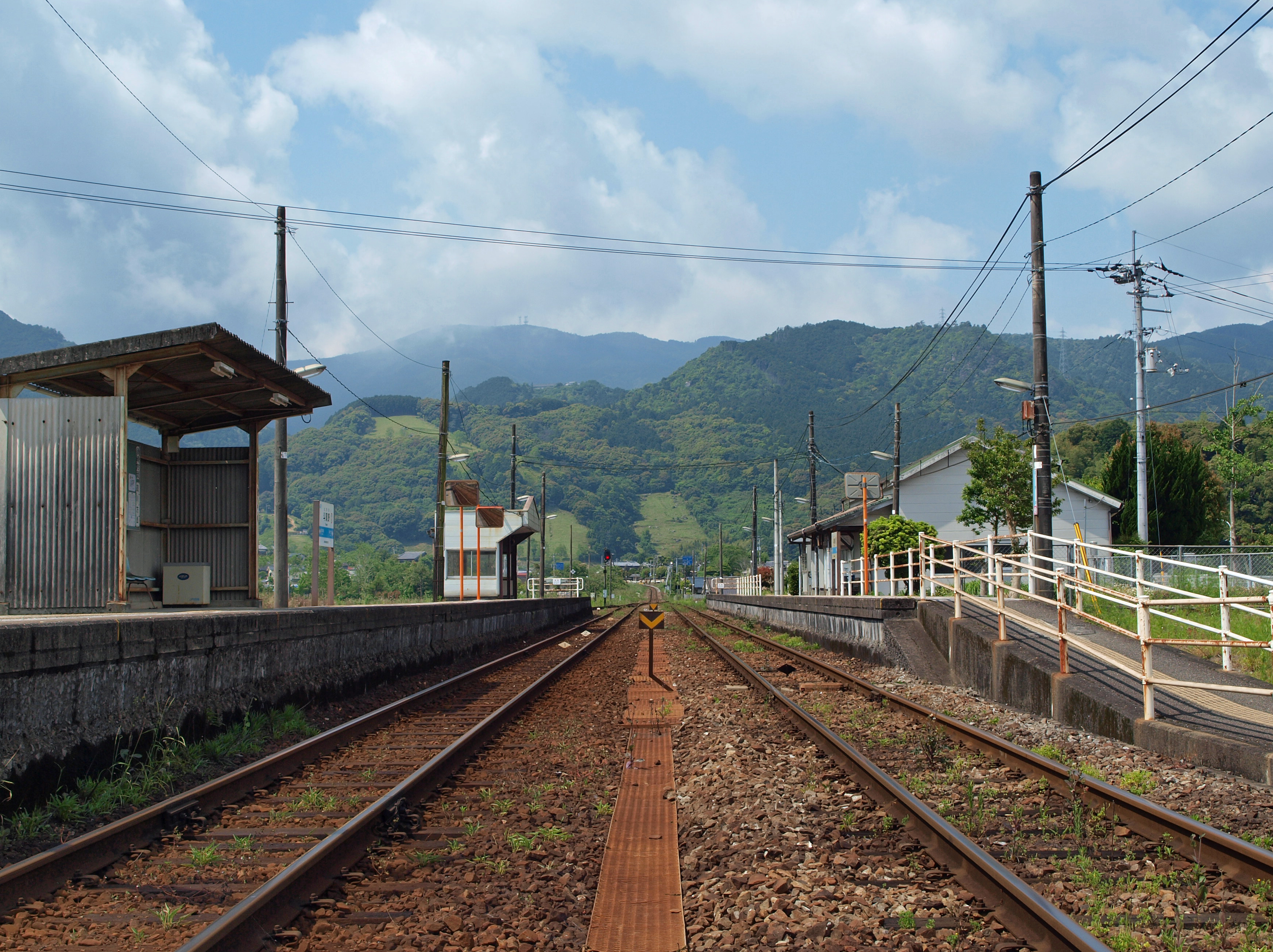 Togano station, Dosan-line, JR Shikoku, Japan